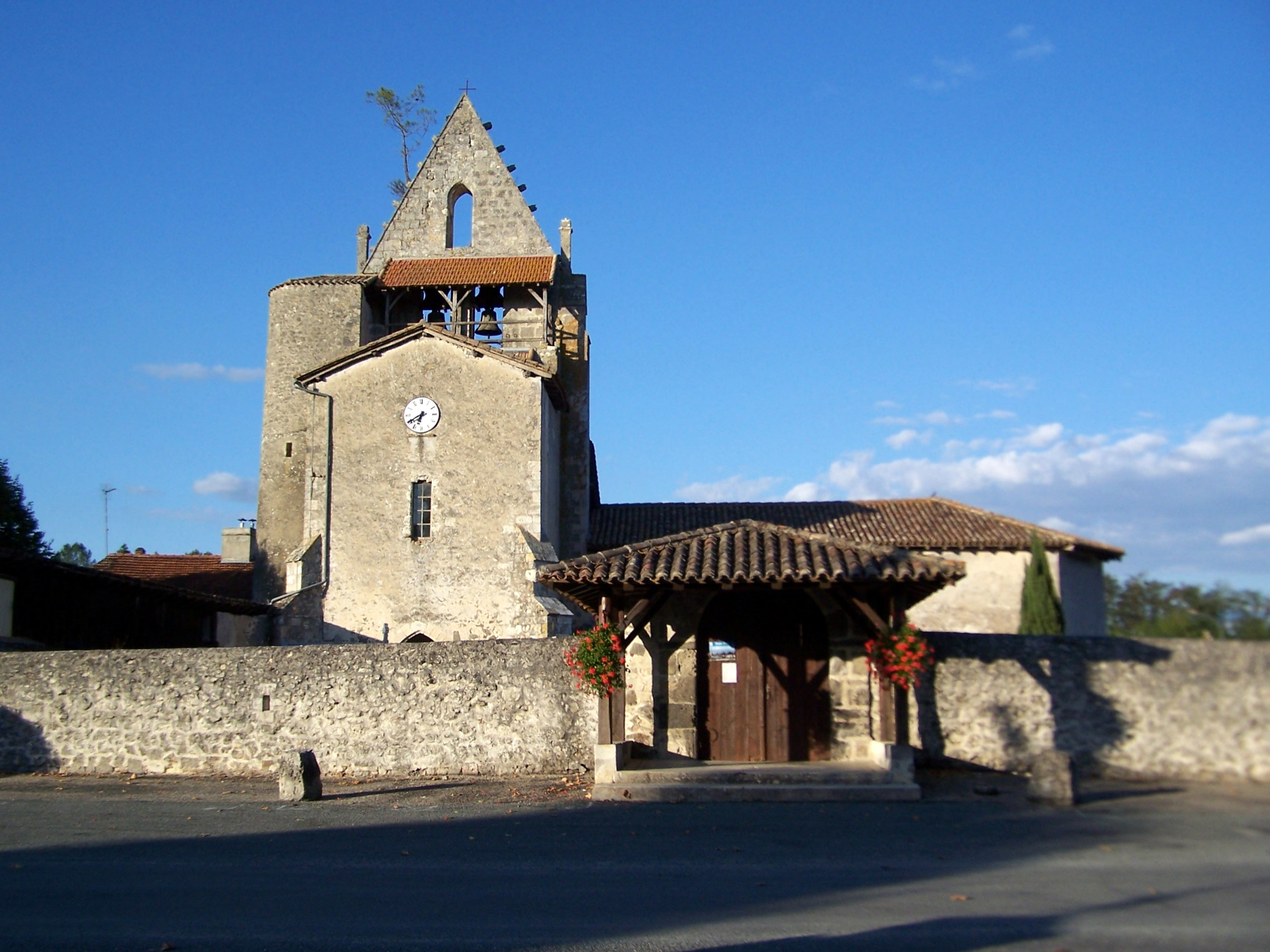 Saint John the Baptist church of Pompogne (Lot-et-Garonne, France)